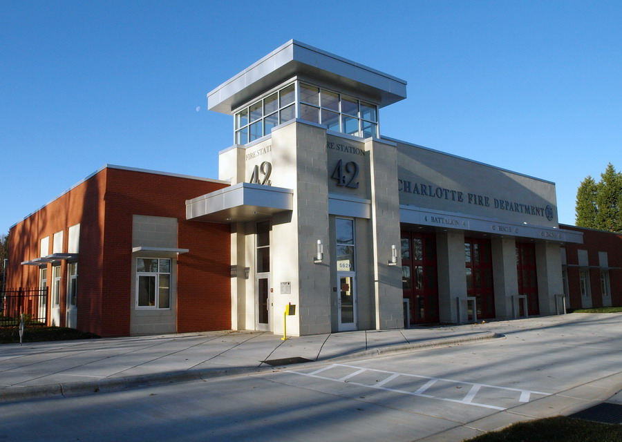 Front view of Fire Station 42, in Charlotte, North Carolina. The station was completed on January 30, 2012.